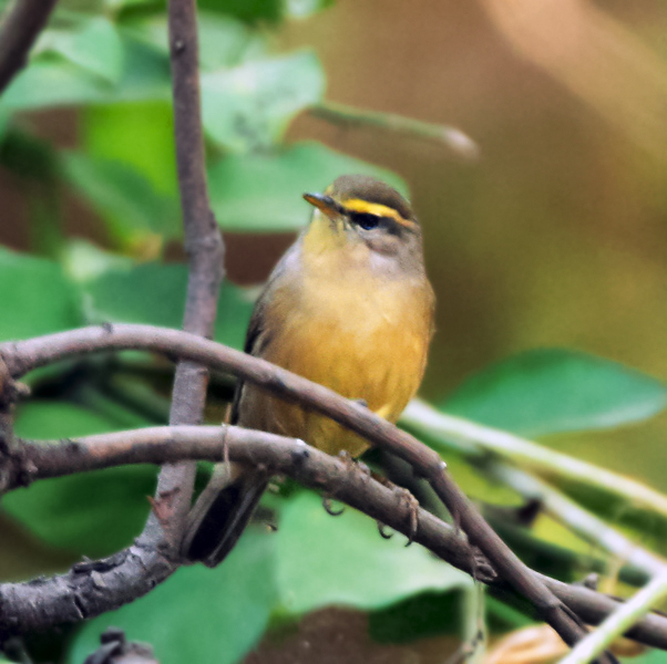 Sulpher-bellied Warbler Phylloscopus griseolus at Sindhrot in Vadodara District of Gujarat, India.